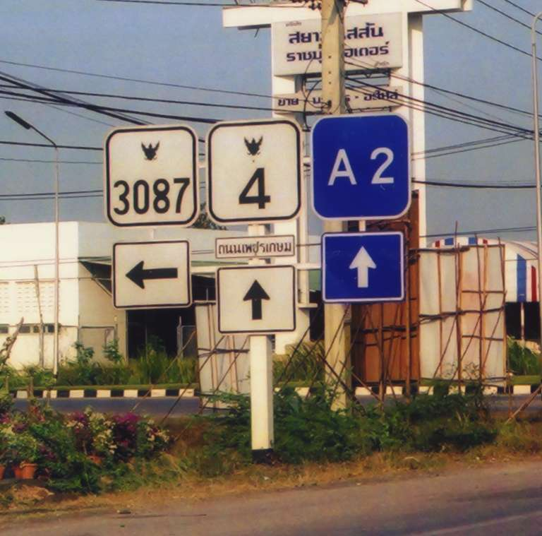 Road sign of the Asian highway 2 near Ratchaburi, Thailand. The sign is located at Mueang Ratchaburi district at the Khao Ngu intersection, where Thai highway 3087 towards Tham Chompon split off from Thai highway 4 towards Bangkok. Asian highway 2 and Thai highway 4 are identical on the way to southern Thailand. Actually, it is the Thai highway 4 bypass of Ratchaburi, as the original highway 4 passes through the city. The Thai text below the "4" says Thanon Phetkasem (ถนนเพชรเกษม), which is the name of Thai highway 4. Photo taken by User:Ahoerstemeier on January 26 2005.